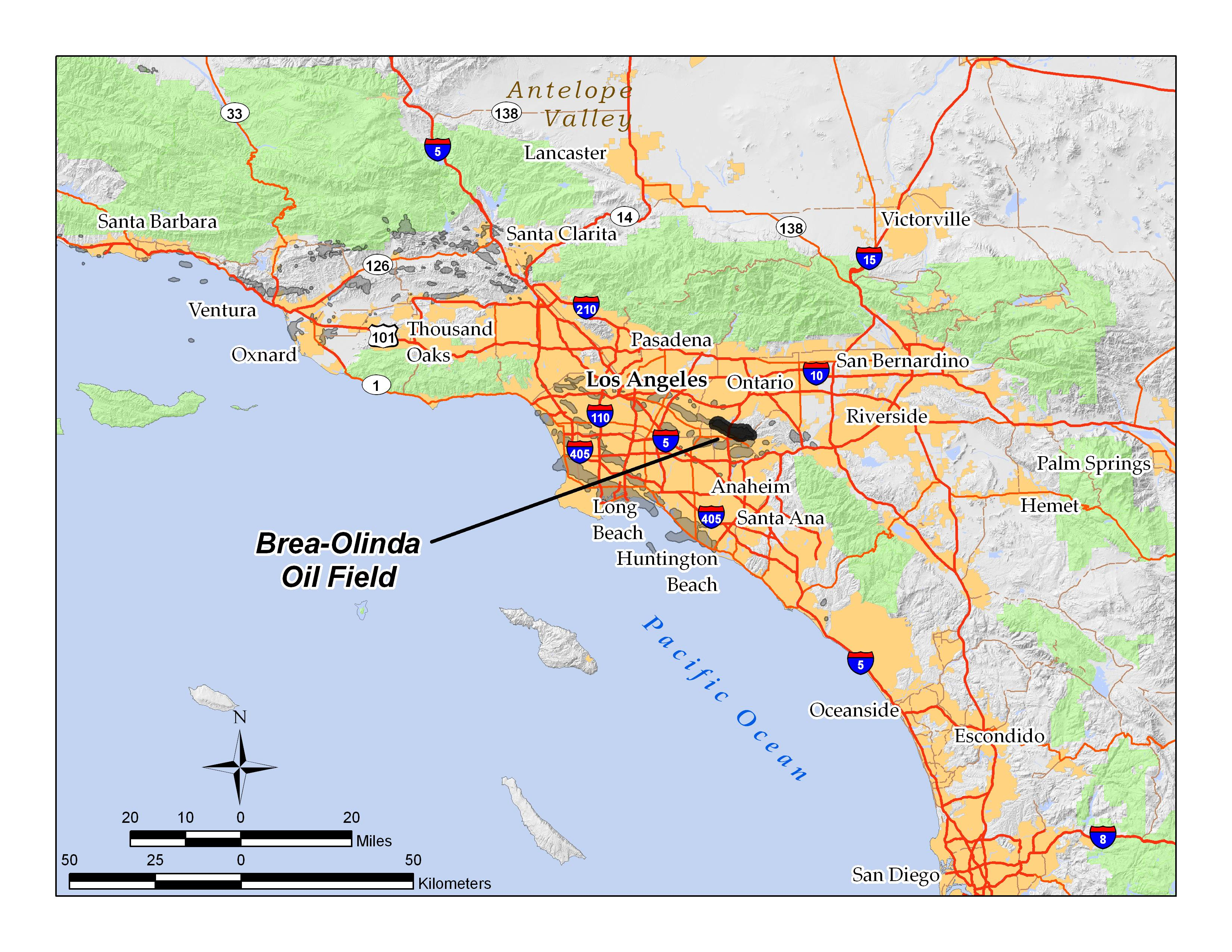 Location of Brea-Olinda oil field; by self in ArcGIS 9.3; GFDL/equiv